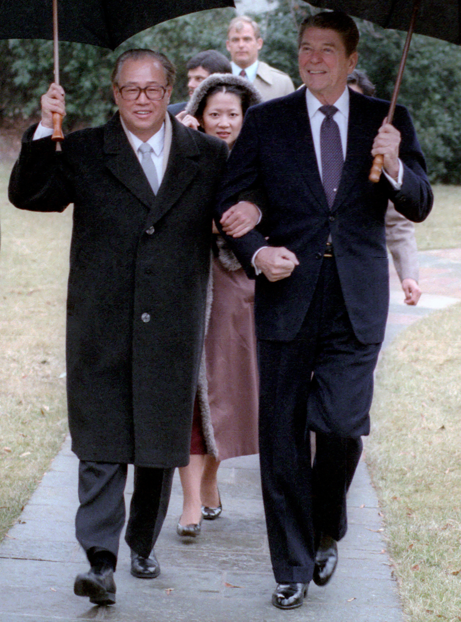 President Reagan walking with Premier Zhao Ziyang of the People's Republic of China during his visit to the White House